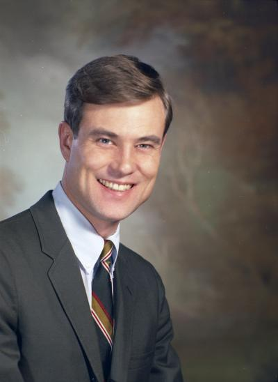 Senator Lawrence Faulk, 1967